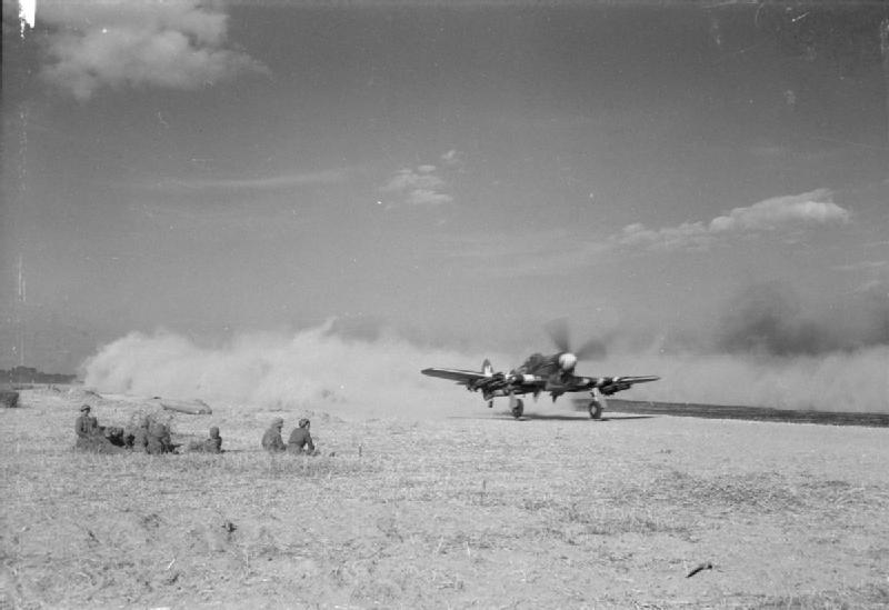 Royal Air Force- 2nd Tactical Air Force, 1943-1945. Hawker Typhoon Mark IB, MN529 'BR-N', of No. 184 Squadron RAF raises clouds of dust as it takes takes off from B2/Bazenville, Normandy, on a sortie armed with rocket projectiles.